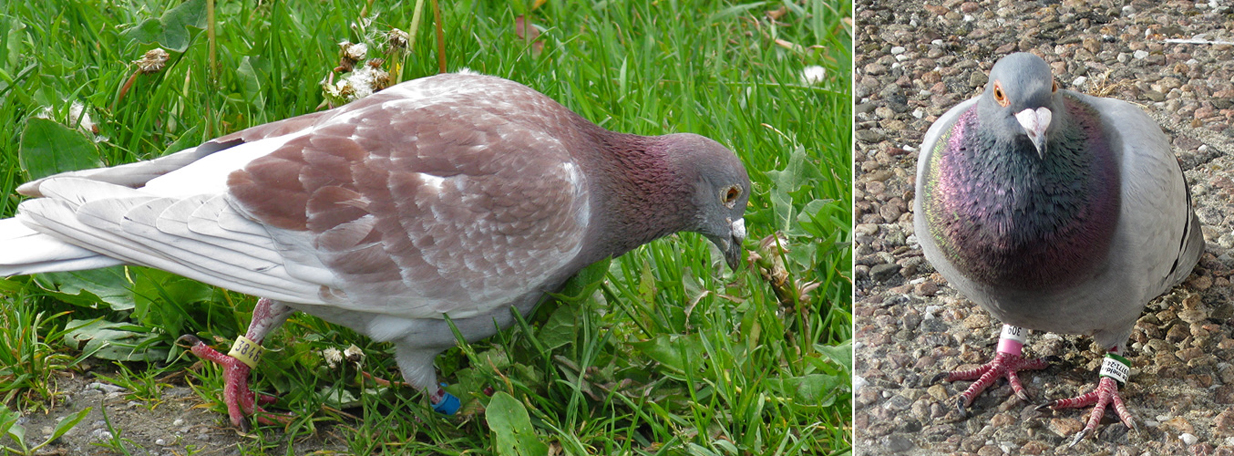 Racing pigeons, Swedish (L) and German (R) Both individuals were resting in Ystad, after logging announced their respective owners / pigeon club by email.